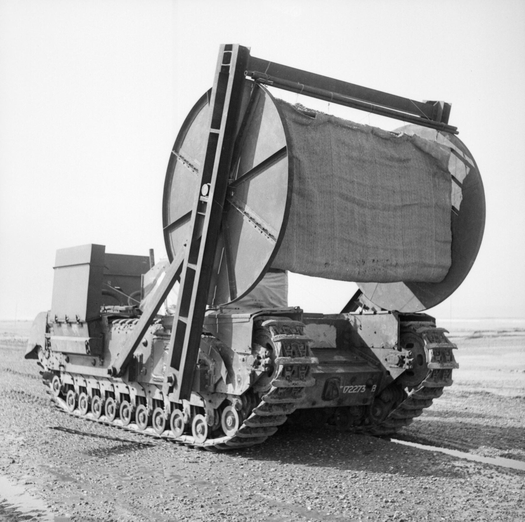 Churchill AVRE carpet-layer with bobbin, 79th Armoured Division, March/April 1944. Churchill AVRE carpet-layer with bobbin, 79th Armoured Division, March/April 1944.